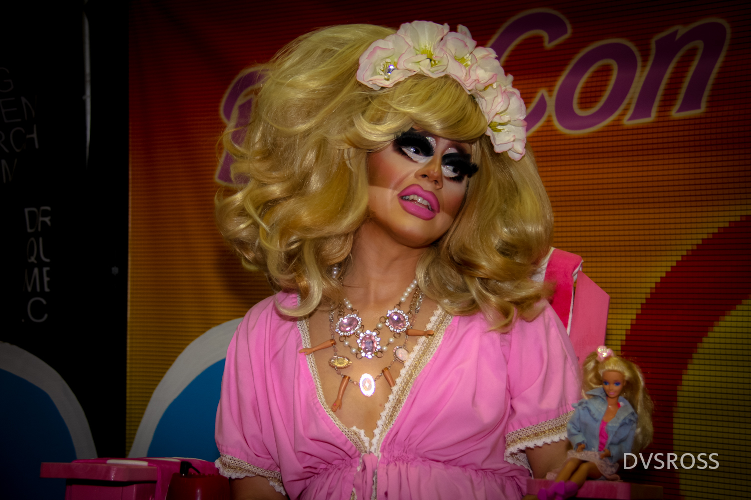 Trixie Mattel at RuPaul's Dragcon 2017